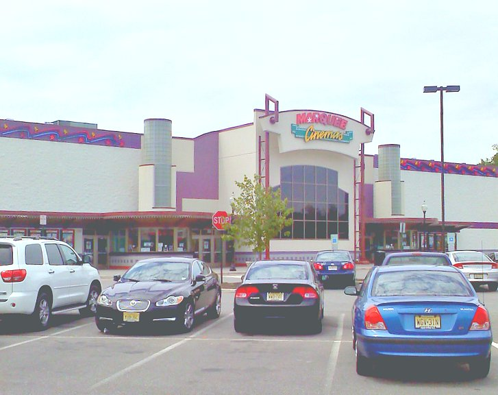 Marquee Cinemas on Route 37 in Toms River, New Jersey